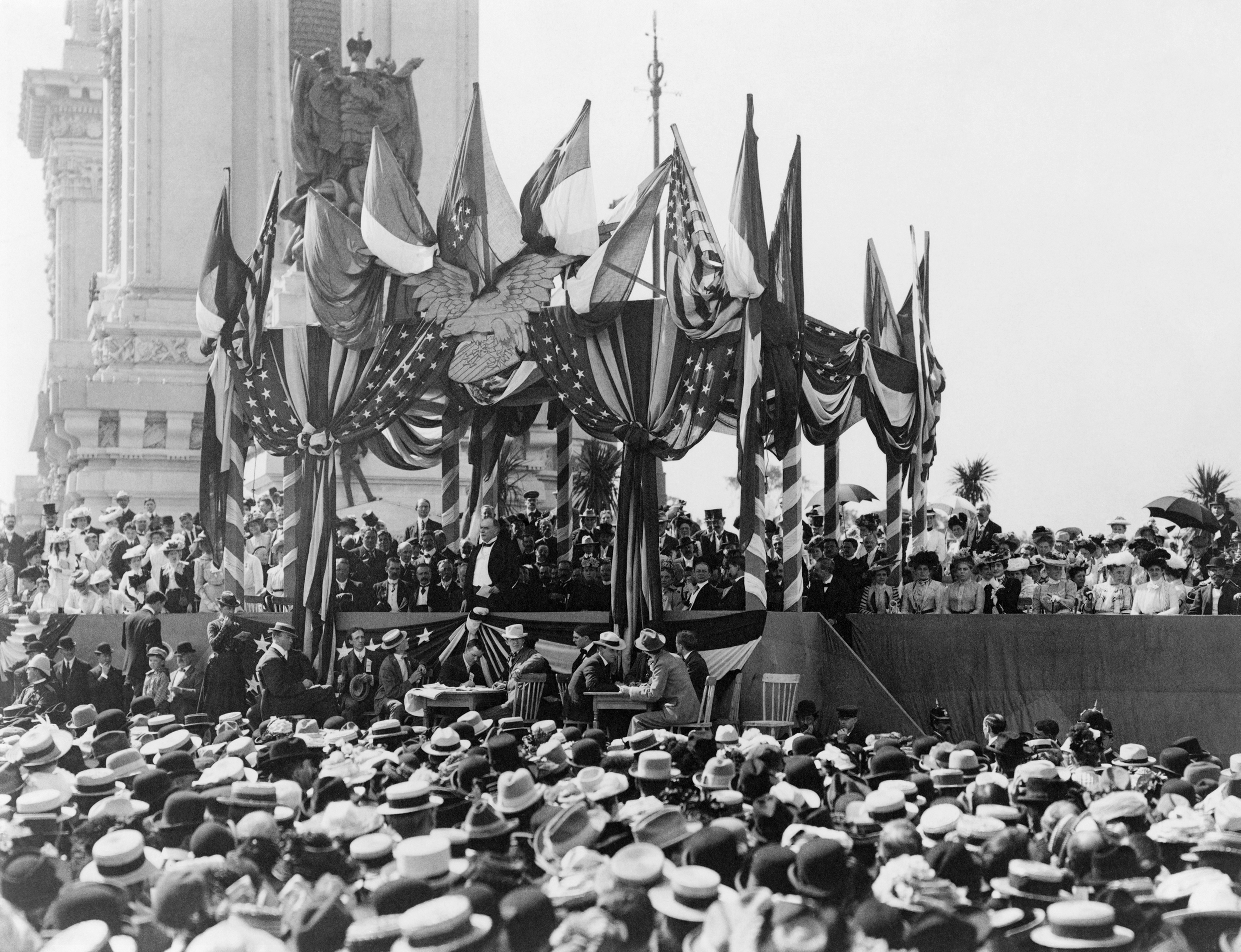 "Delivering the address - President's Day" depicts an address by United States President William McKinley at the Pan-American Exposition in Buffalo, New York on the day before his assassination. Crowd shot looking on the presidential gazebo. McKinley stands hatless, wearing a tuxedo, holding speech notes in his left hand.